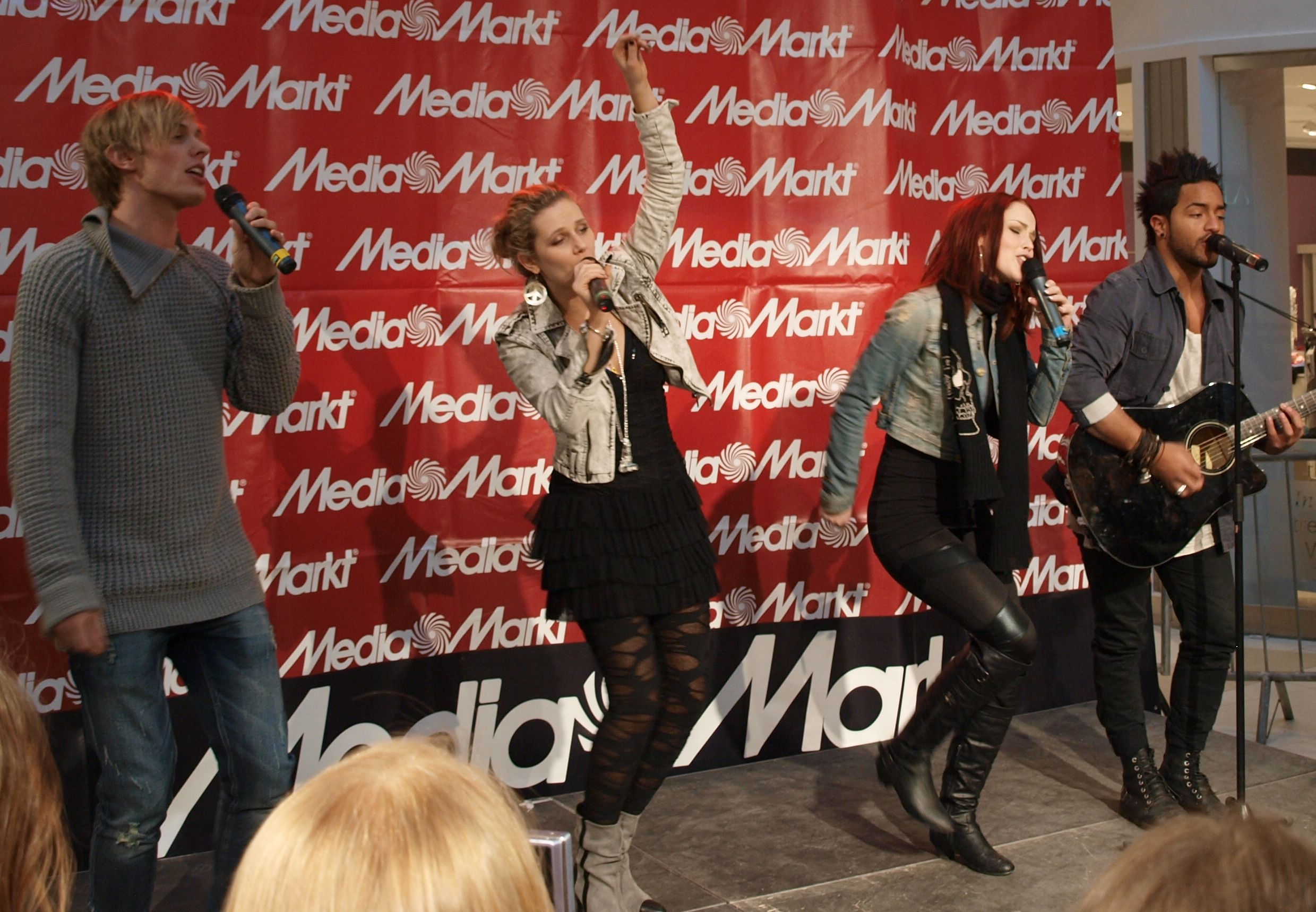 Lovestoned in Forum Nacka.